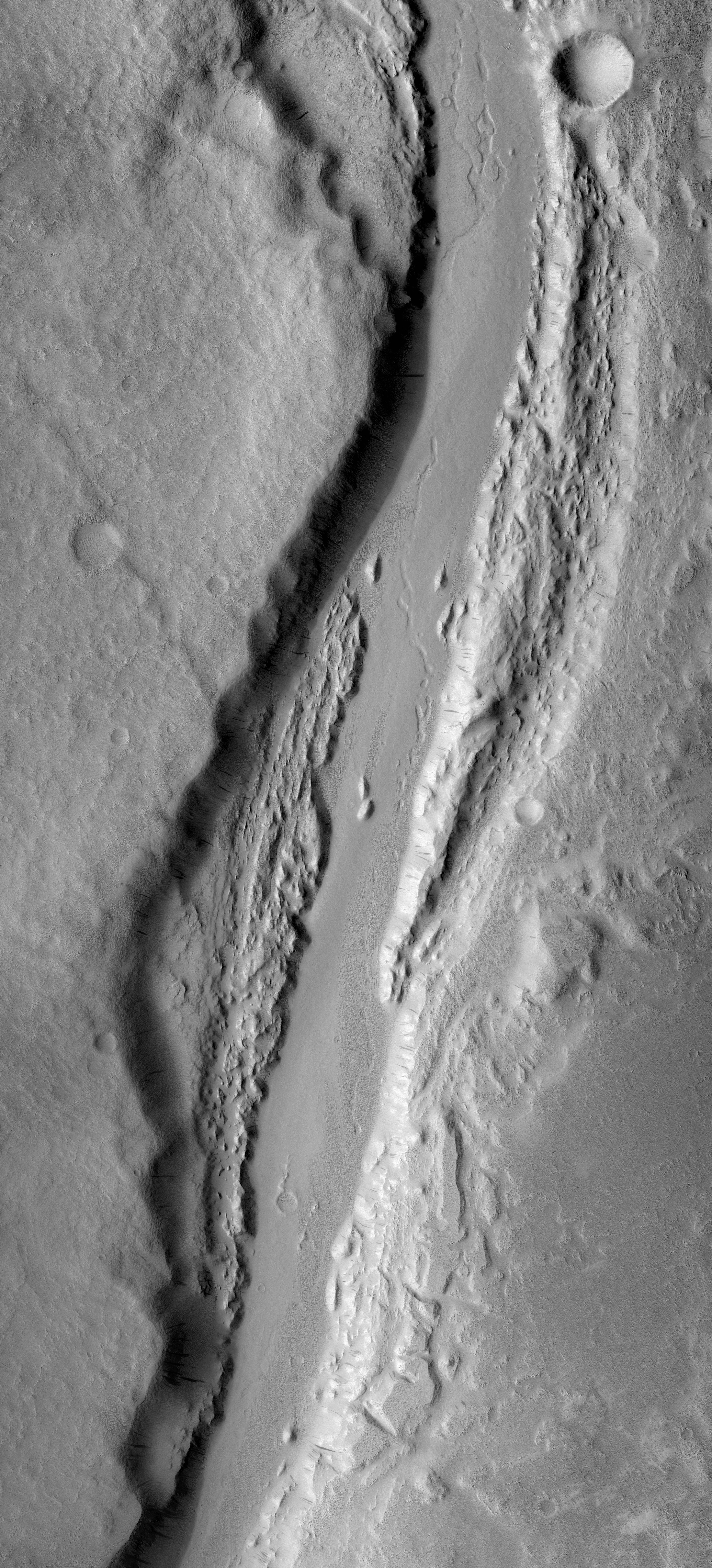 A part of Mangala Valles on Mars imaged by the Context Camera aboard the Mars Reconnaissance Orbiter. Image resolution is around 5.34 meters/pixel.